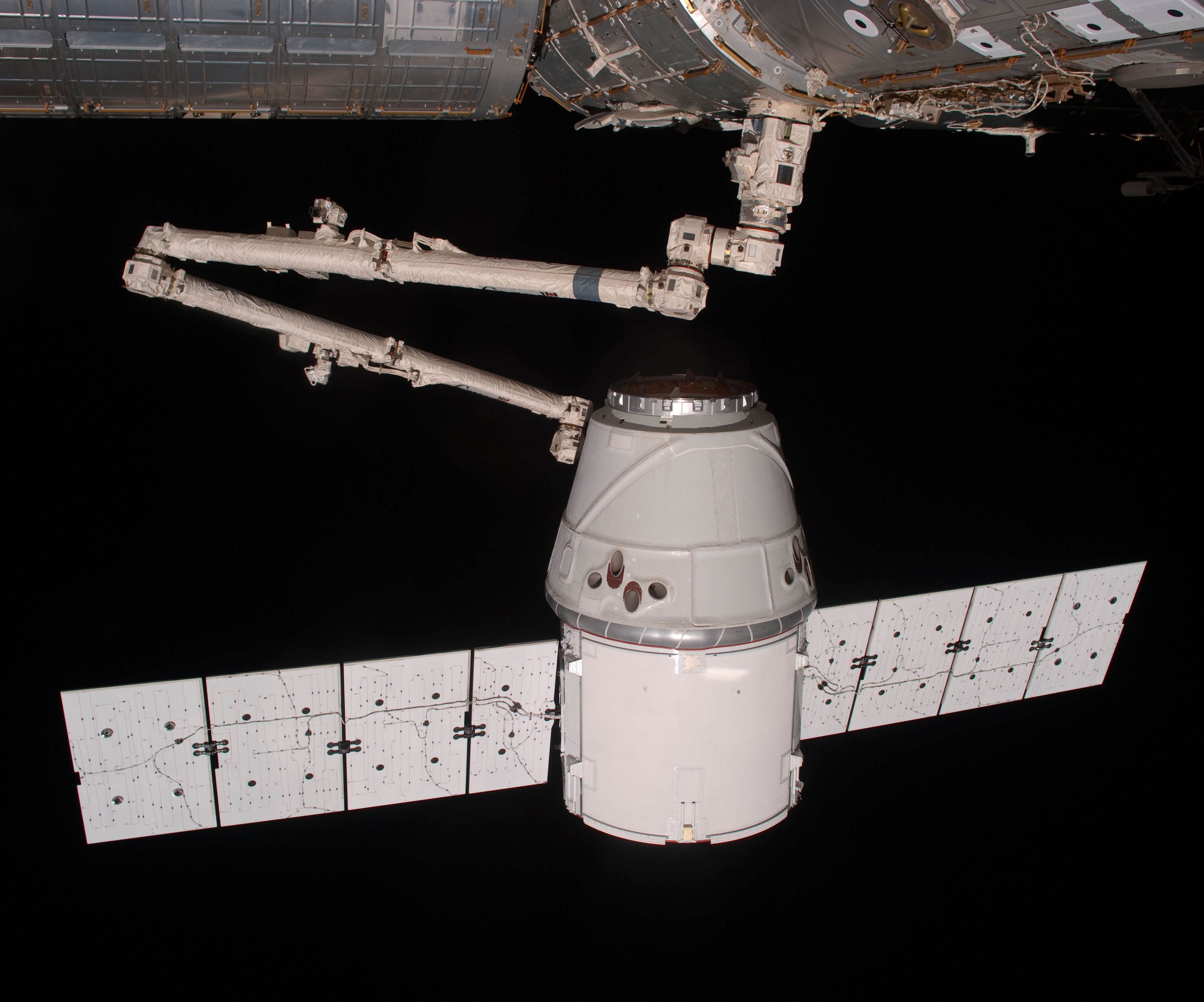 ISS031-E-070804 (25 May 2012) --- The SpaceX Dragon commercial cargo craft is grappled by the Canadarm2 robotic arm at the International Space Station. Expedition 31 Flight Engineers Don Pettit and Andre Kuipers grappled Dragon at 9:56 a.m. (EDT) and used the robotic arm to berth Dragon to the Earth-facing side of the station's Harmony node at 12:02 p.m. May 25, 2012. Dragon became the first commercially developed space vehicle to be launched to the station to join Russian, European and Japanese resupply craft that service the complex while restoring a U.S. capability to deliver cargo to the orbital laboratory. Dragon is scheduled to spend about a week docked with the station before returning to Earth on May 31 for retrieval.